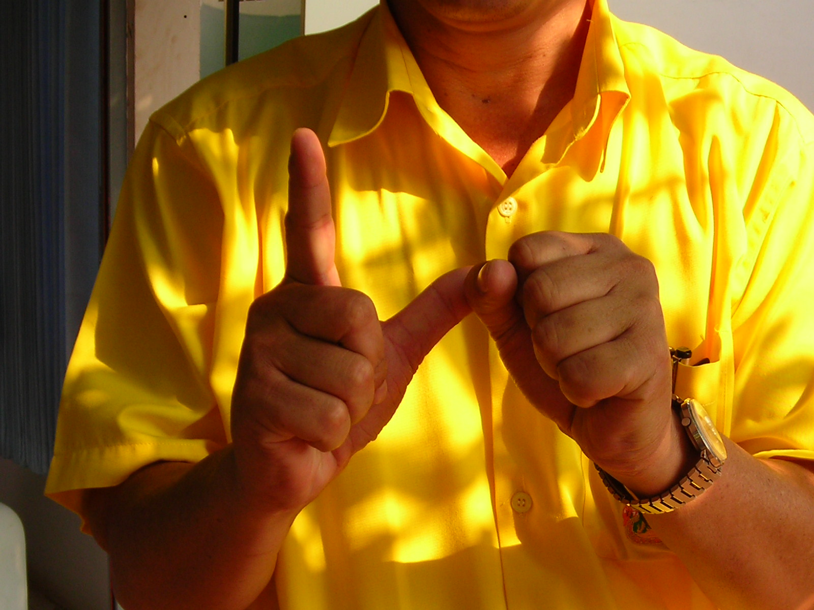 Finger gesture showing 20, Thai style.